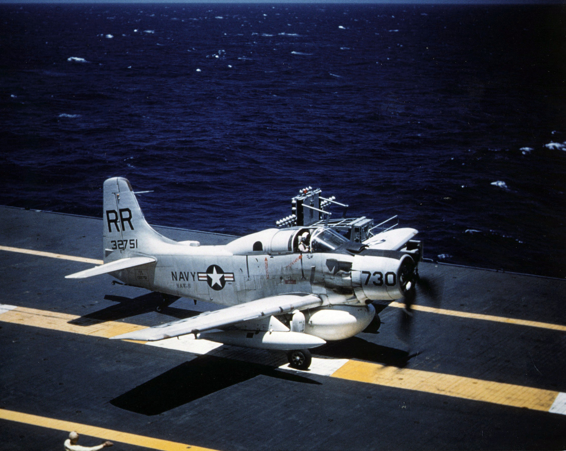 A U.S. Navy Douglas AD-5W Skyraider (BuNo 132751) of Airborne Early Warning squadron VAW-11 Det.J Early Eleven on the deck of the aircraft carrier USS Kearsarge (CVA-33) in the western Pacific. VAW-11 Det.J was assigned to Air Task Group 3 (ATG-3) aboard the Kearsarge for a deployment to the western Pacific from 9 August 1957 to 2 April 1958.